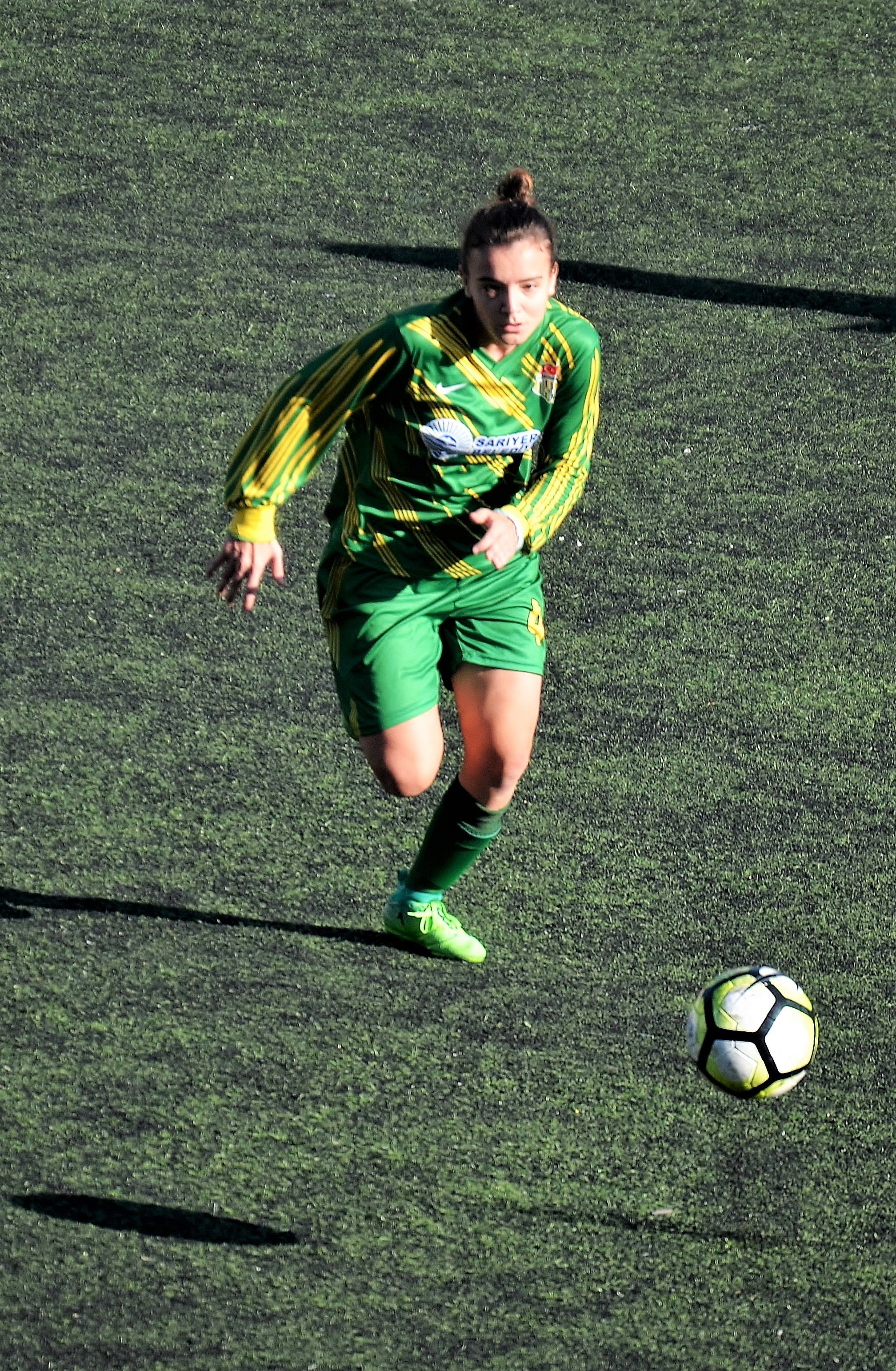 Ayşe Şevval Ay of Kireçburnu Spor in the 2017-18 Turkish Women's First League.